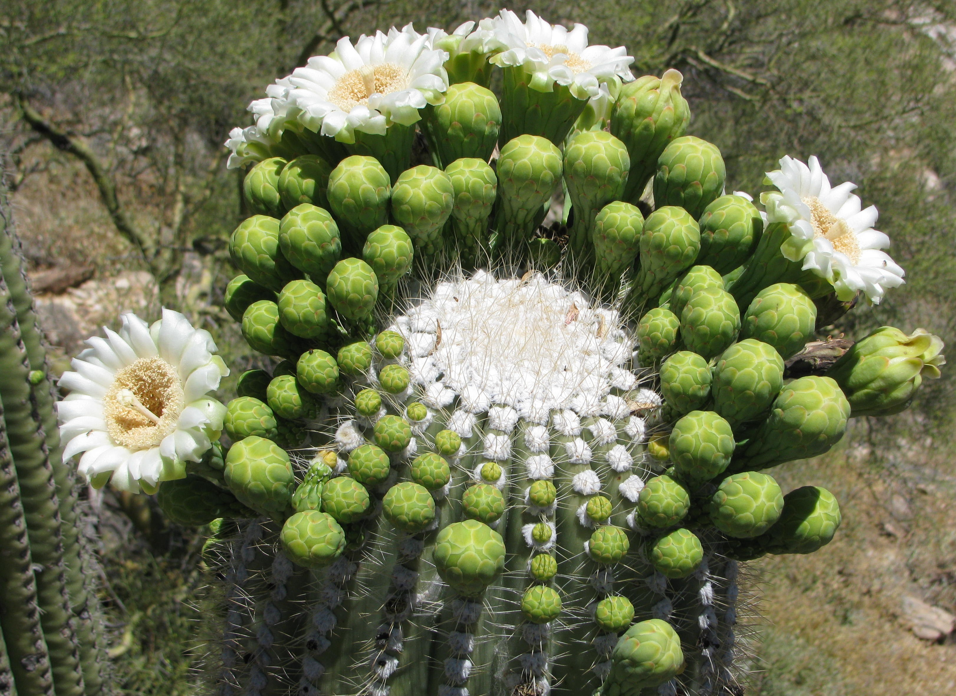 We had a wet spring. I'm standing on a rock.